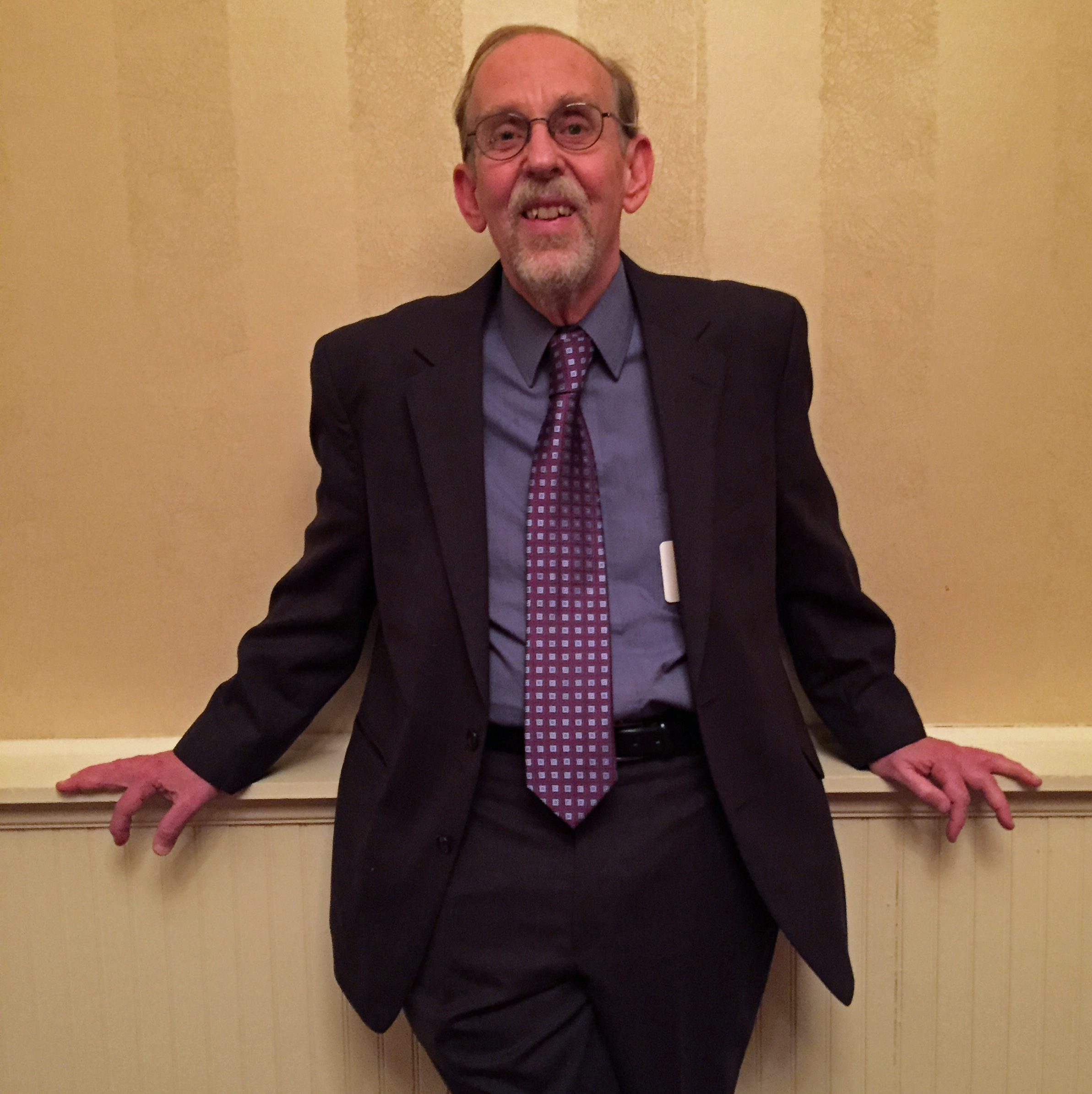 Maryland State Delegate Jimmy Tarlau at the Maryland Municipal League legislative reception at the Maryland Inn, Annapolis, MD, on January 14, 2015.